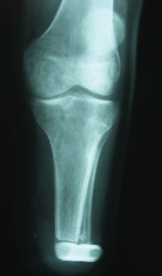 Osteomyopastic Amputation Reconstruction